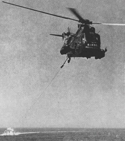 A Sikorsky RH-3A Sea King minesweeping helicopter of the U.S Navy Naval Air Mine Defense Development Unit (NAMDDU) at Panama City, Florida (USA), towing the minesweeping gear in 1967. In 1965 nine standard SH-3As were modified by substituting the anti-submarine equipment by a minesweeping gear.